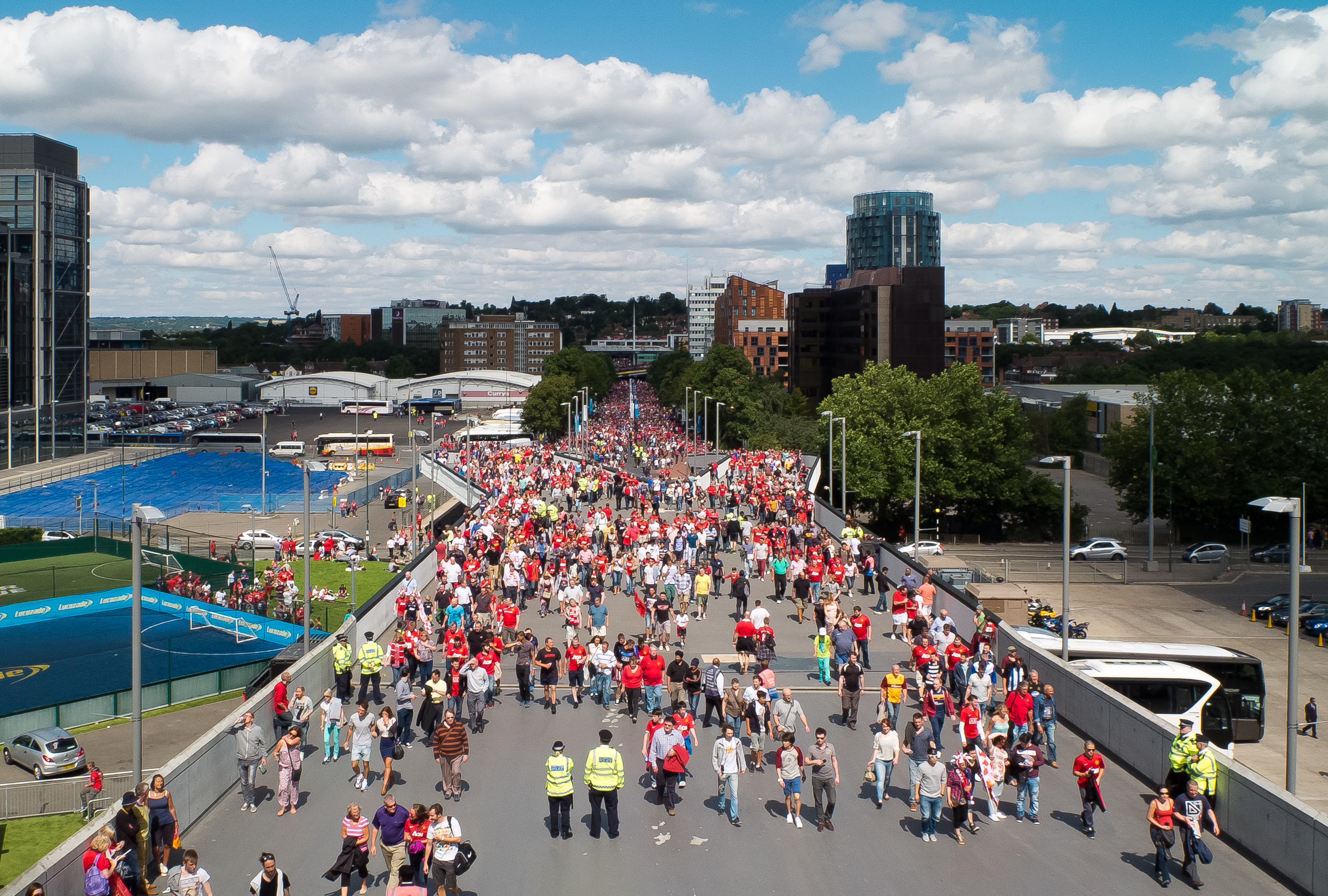 Olympic Way from Wembley Stadium before FA Community Shield 2013